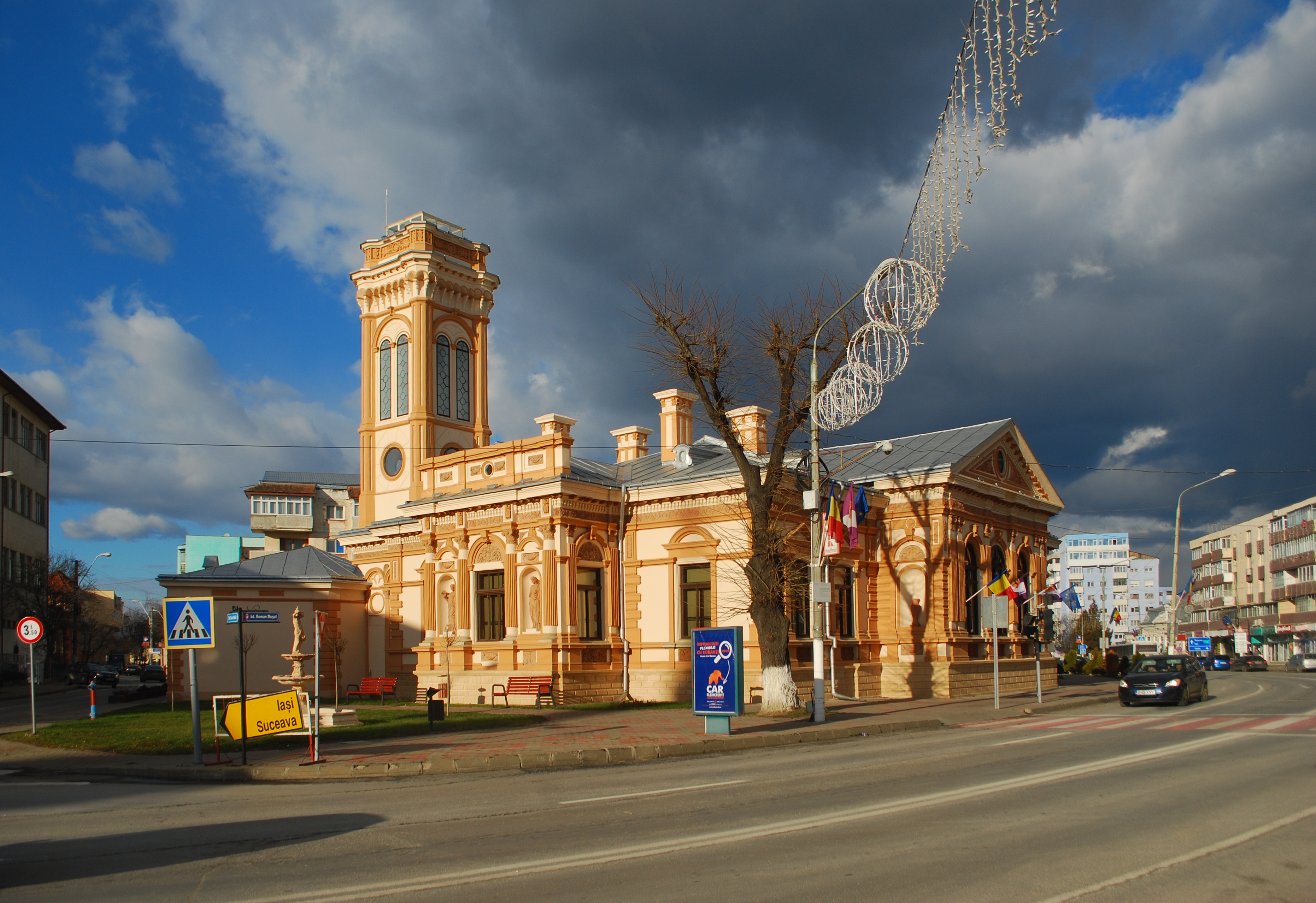 Ioanid house (currently the city library) in Roman, Romania